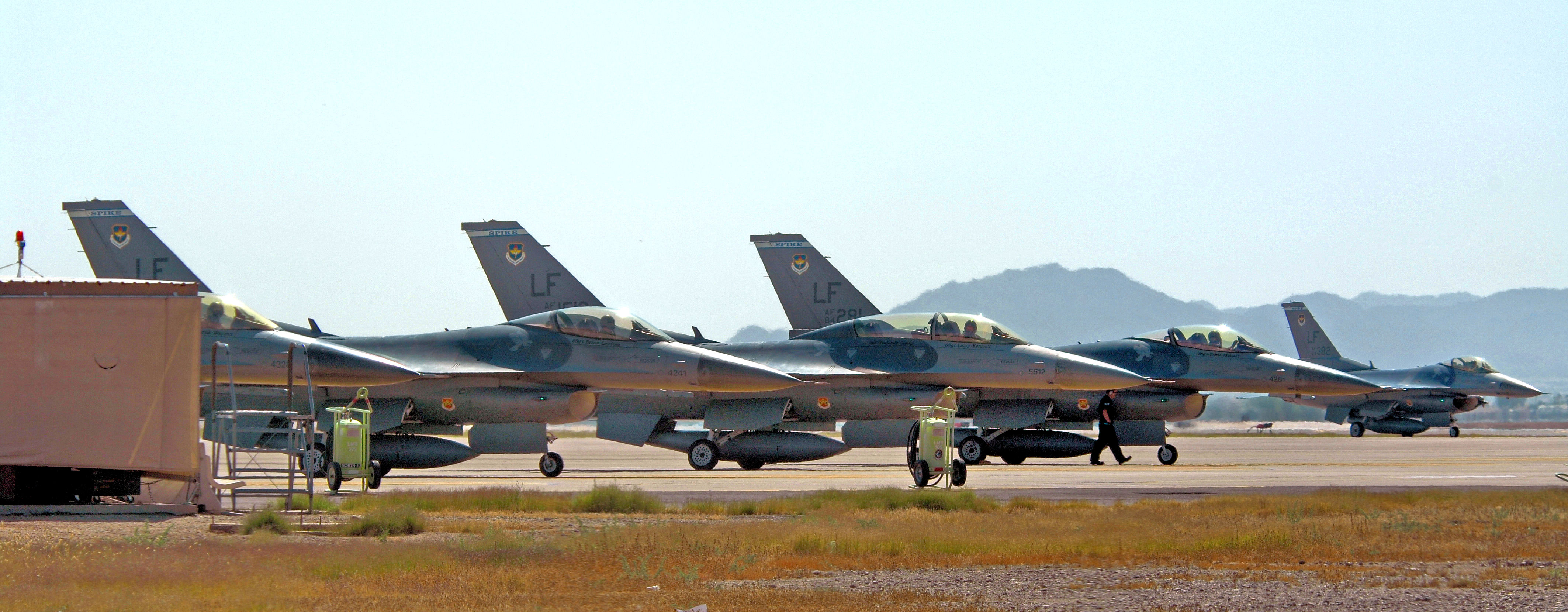 F-16's from the 62nd Fighter Squadron await take-off orders at the north end of runway on April 29. at Luke Air Force Base, Ariz. U.S. Air Force photo by Tech. Sgt. Raheem Moore. Aircraft identities are (from left) F-16D Block 25E 84-1328 (t/v 5D-22), F-16C Block 25C 84-1241 (t/v 5C-78), F-16D Block 25F 85-1512 (t/v 5D-34), F-16C Block 25D 84-1281 (t/v 5C-118), and F-16C Block 25E (t/v 5C-164) taxiing in the background.